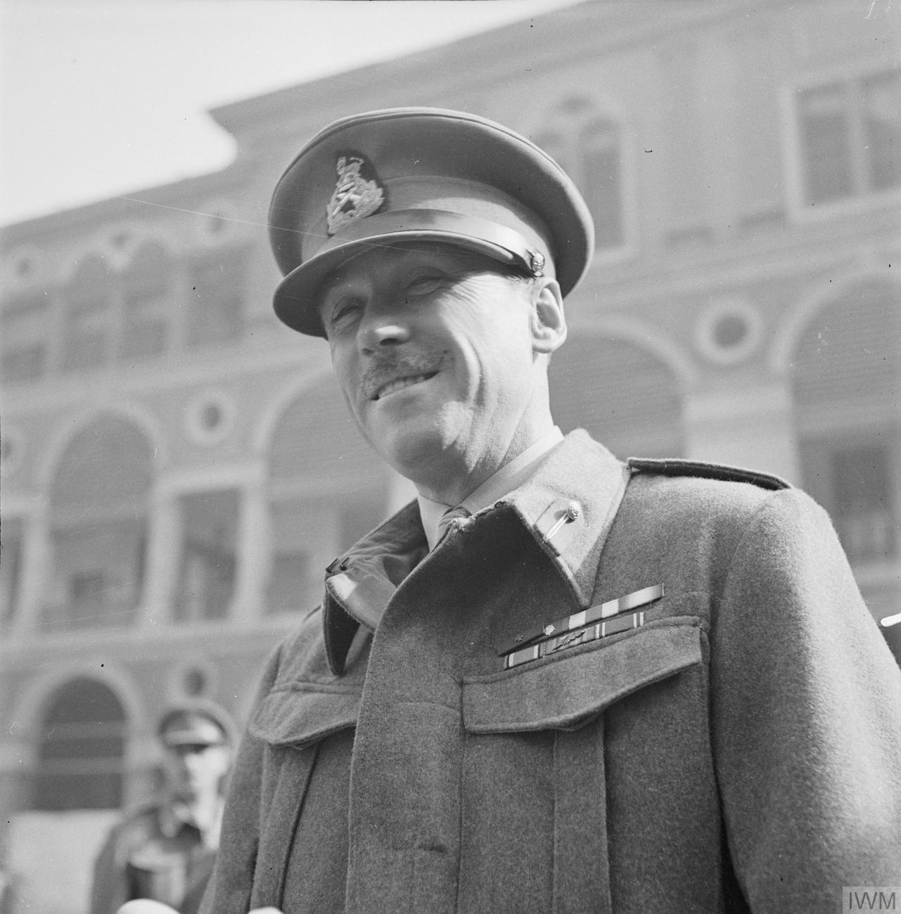 John Charles "Jock" Campbell VC : Place and date of deed, Western Desert, 21 November 1941. Photograph taken after being presented with the VC by the Commander-in-Chief General Sir Claude Auchinleck.